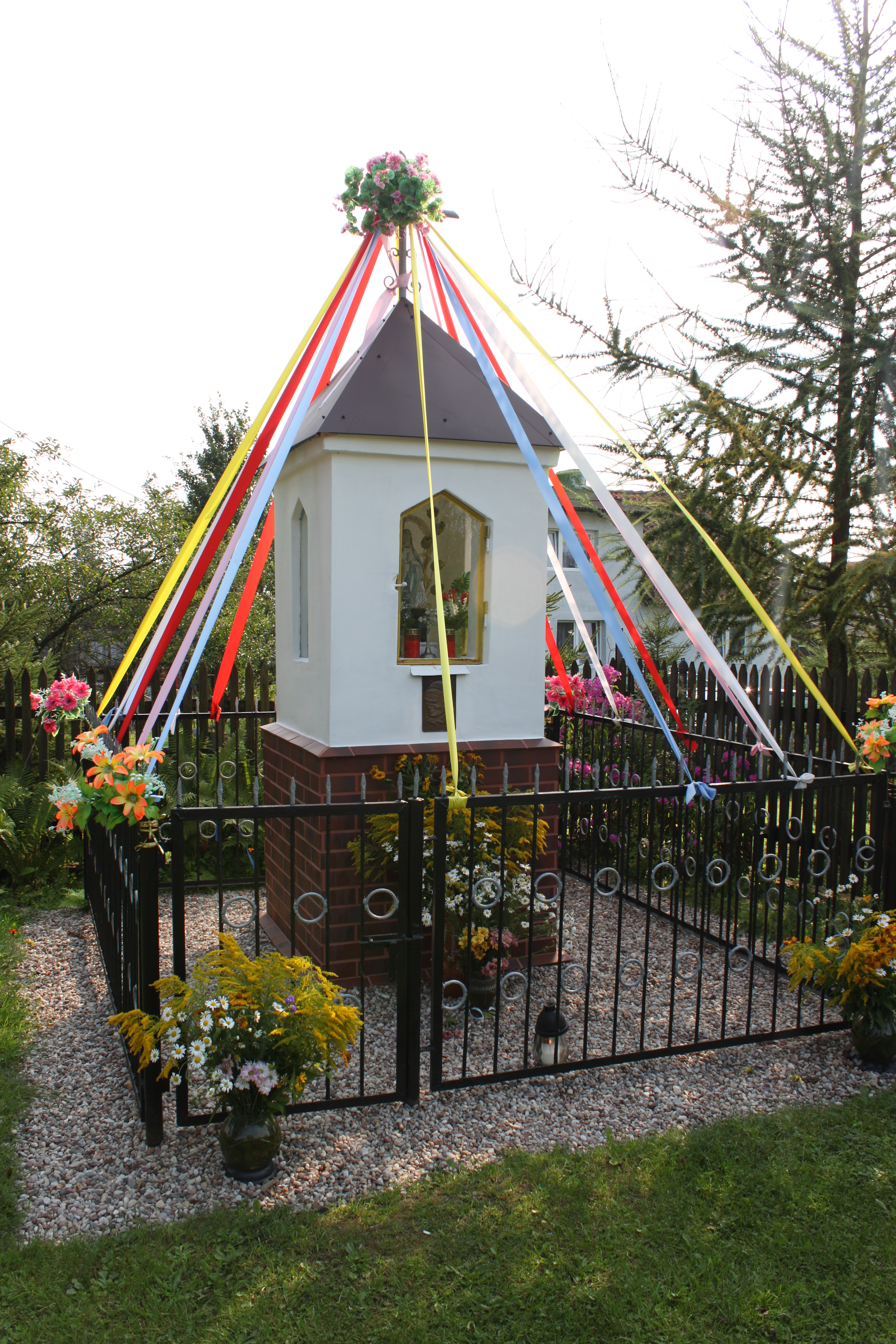 Shrine in Miętkie.